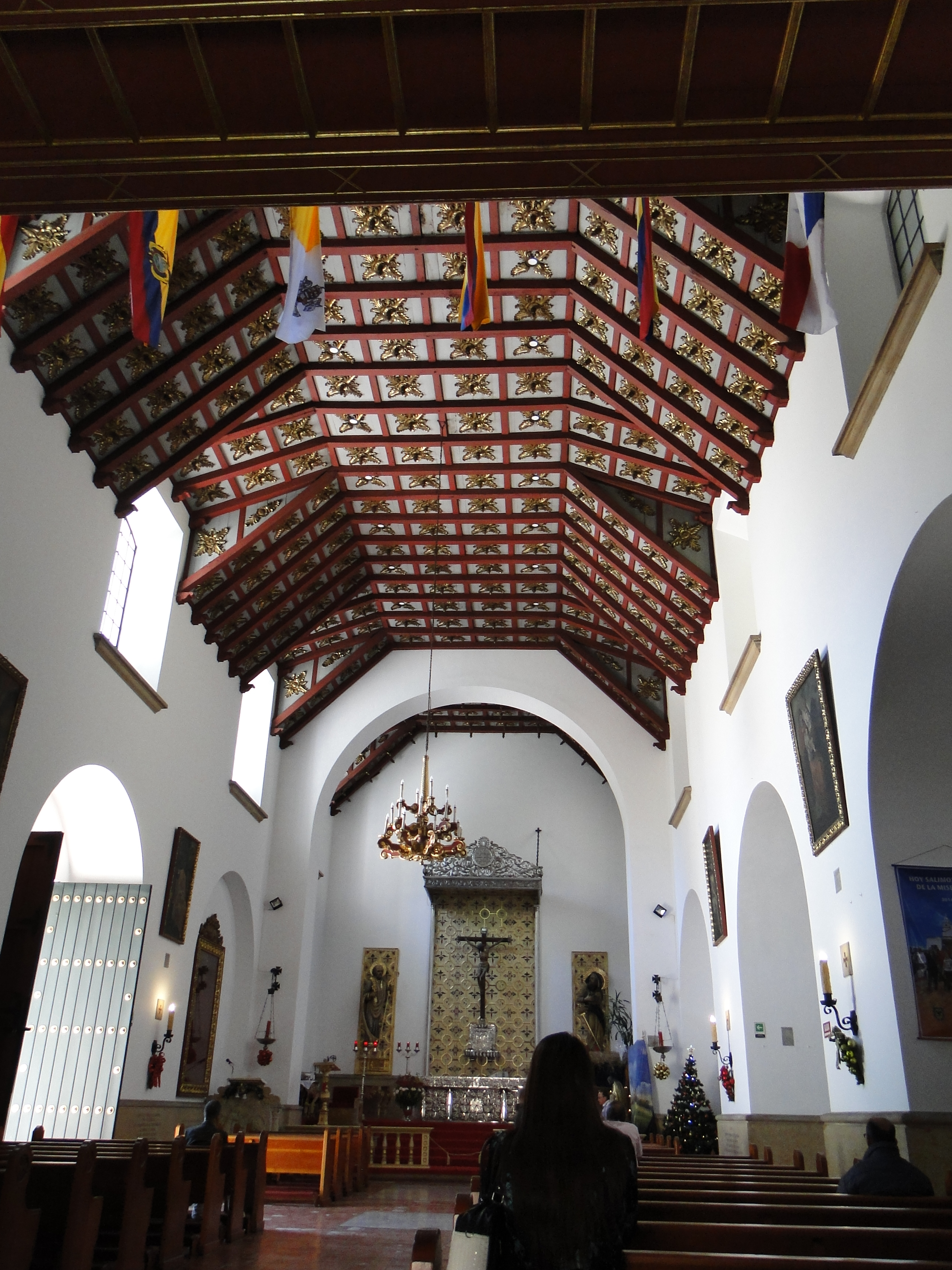 church of the Veracruz in Bogota (inner view)